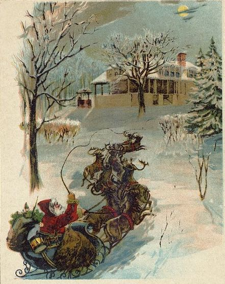 (Removed after reusableart request.)